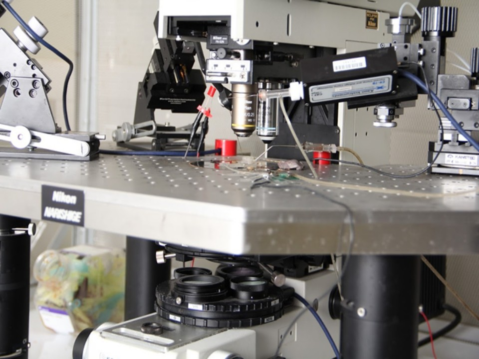 Confocal microscope at Universidad Católica de Valparaíso. Supported by MECESUP Program